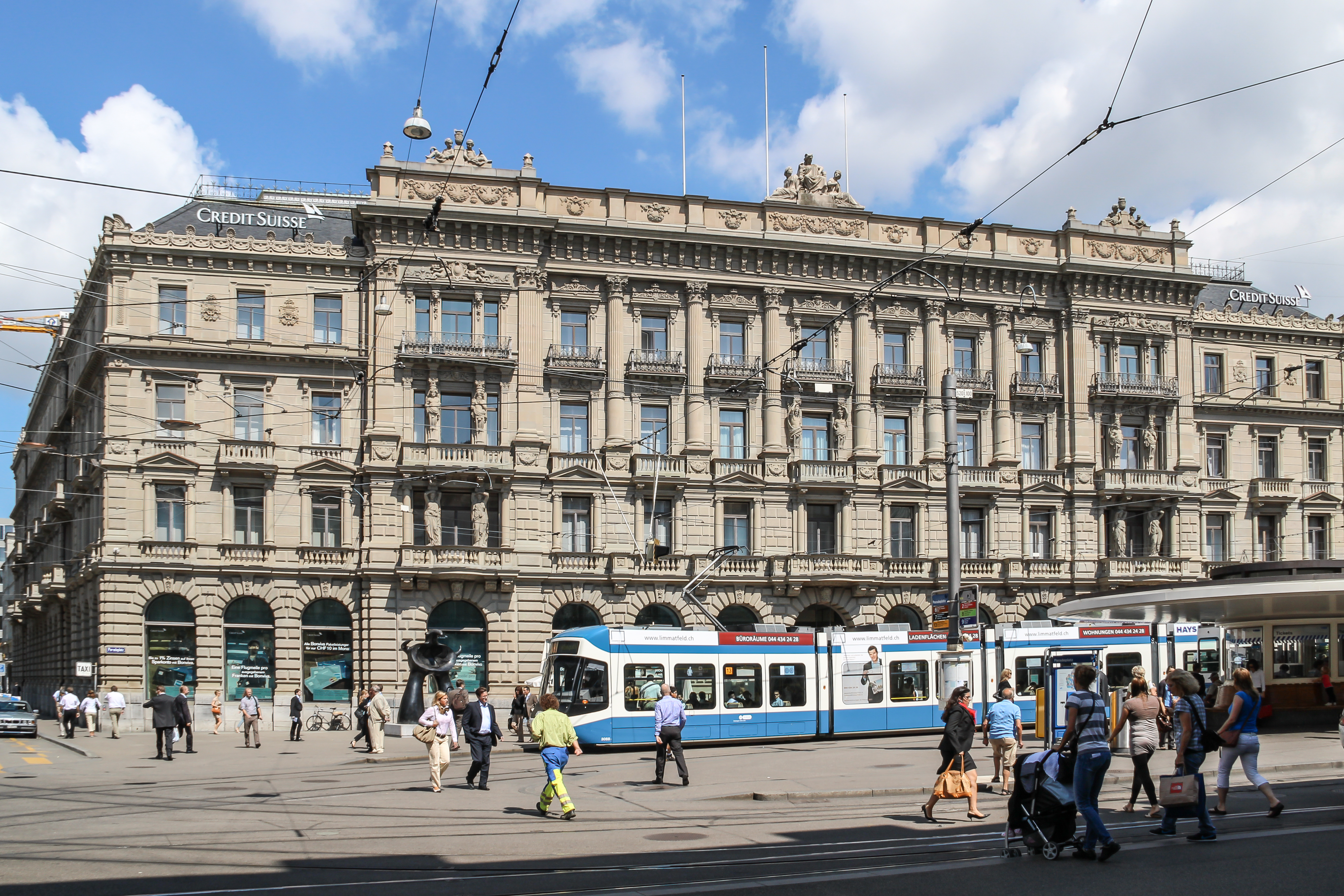 Crédit Suisse at the Paradeplatz, Zurich, Switzerland